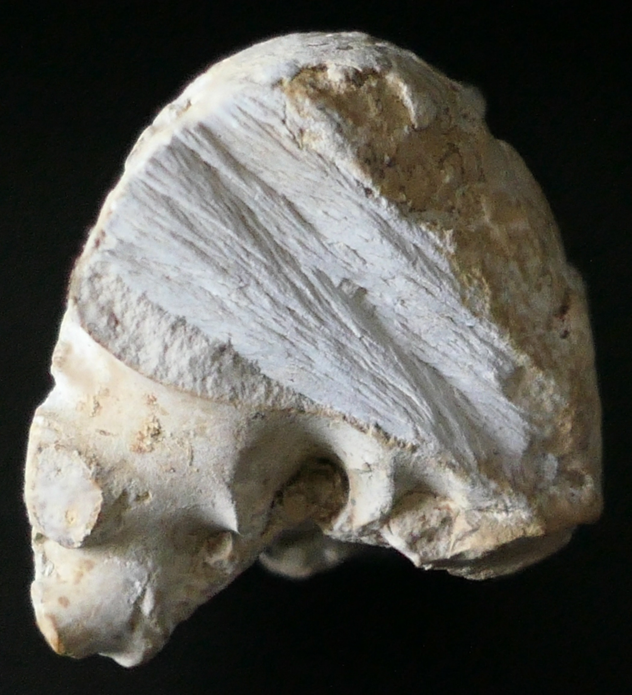 Strahlenkalk (Shatter cone) within ammonite steinkern from the Steinheim impact crater (type locality). Width of hand specimen: 4.5 cm (Coll. Baier).